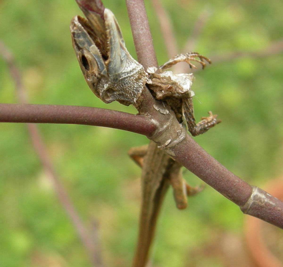 モズの早贄 : Pierced lizard by shrike